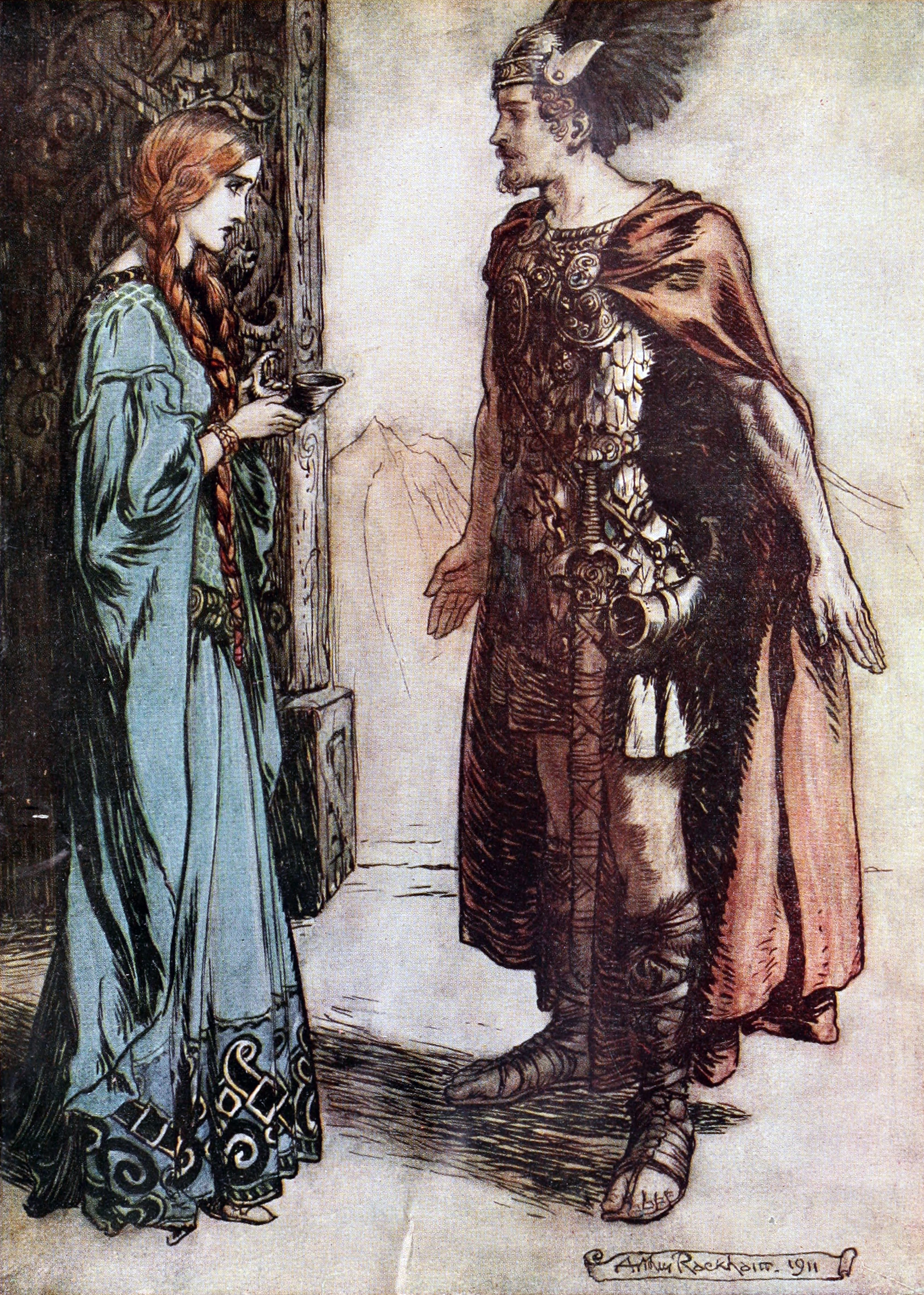 Siegfried hands the drinking-horn back to Gutrune, and gazes at her with sudden passion.